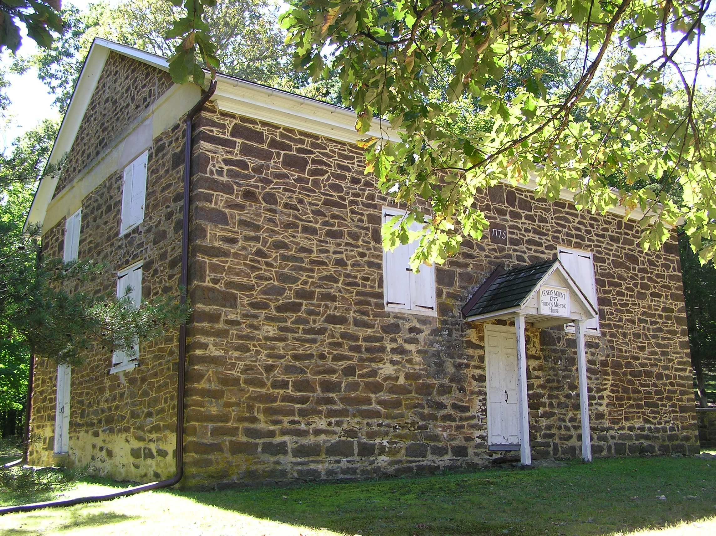 Front view of the Meetinghouse at Arney's Mount Friends Meetinghouse and Burial Ground, located at the intersection of Mount Holly-Juliustown and Pemberton-Arney's Mount Roads in Arney's Mount, NJ.